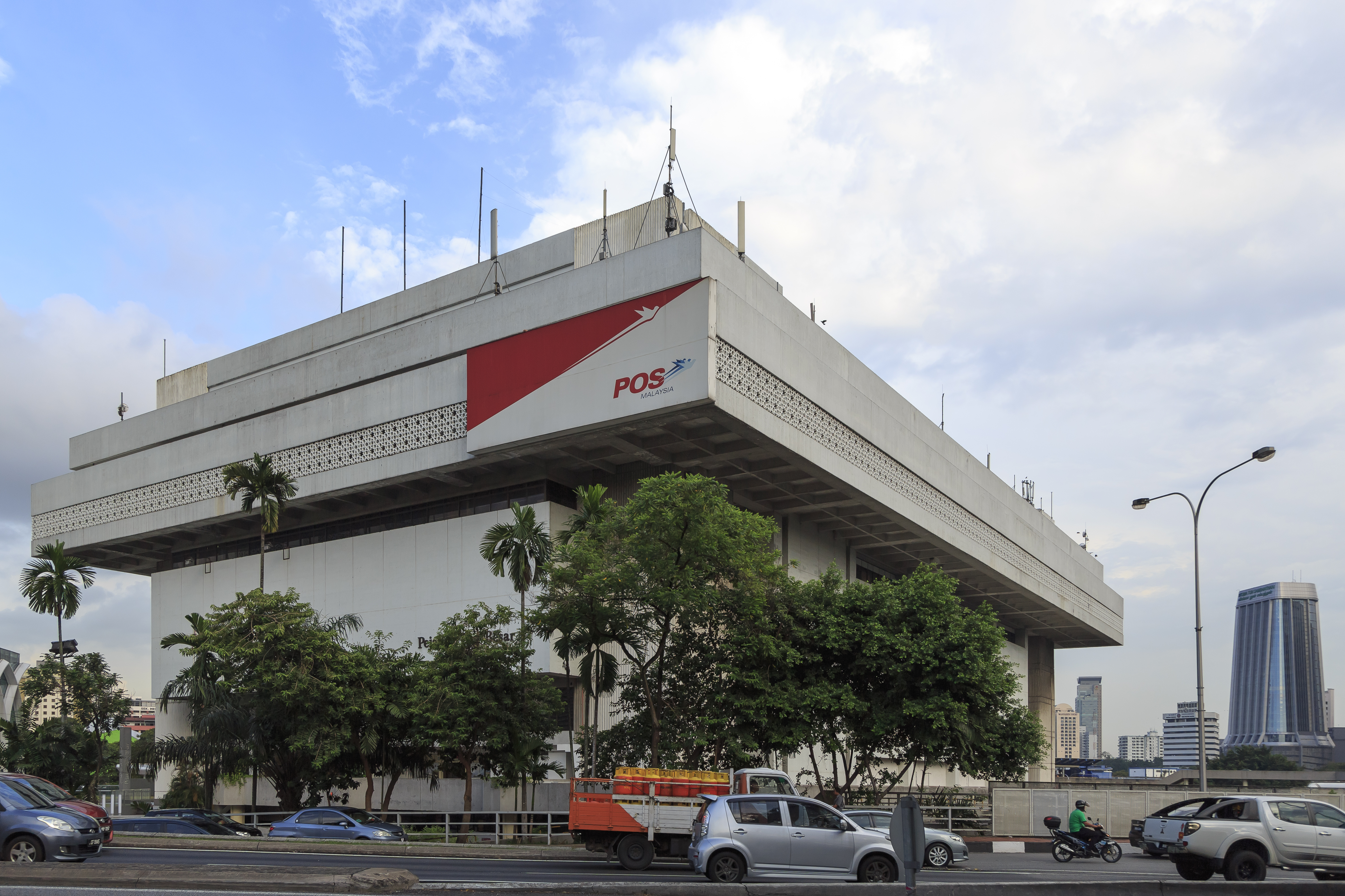 Kuala Lumpur, Malaysia: Pos Malaysia Headquarters